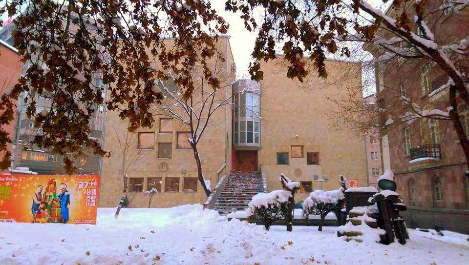 Khnko Aper Children's Library, Yerevan, Jan. 2016